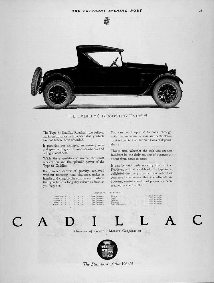 Cadillac advertisement featuring the Roadster Type 61 model.